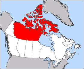 Images was created from Image:Northwest Territories-map.png to over come objections, please improve this map on anyway you see fit. This map is the boundaries of the Northwest Territories from 1912 to 1999. The Map is of 1949 Canada boundaries as Newfoundland and Labrador entered the union, this change had no effect on the Northwest Territories.